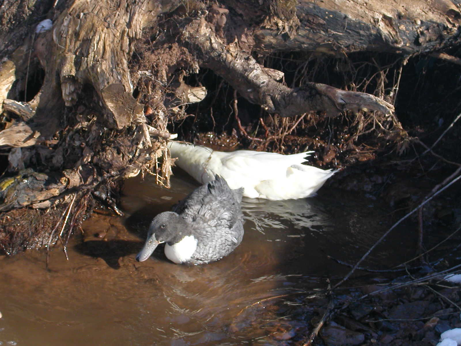 A 3 month old Blue Swedish hen (rear) and a 3 month old White Pekin